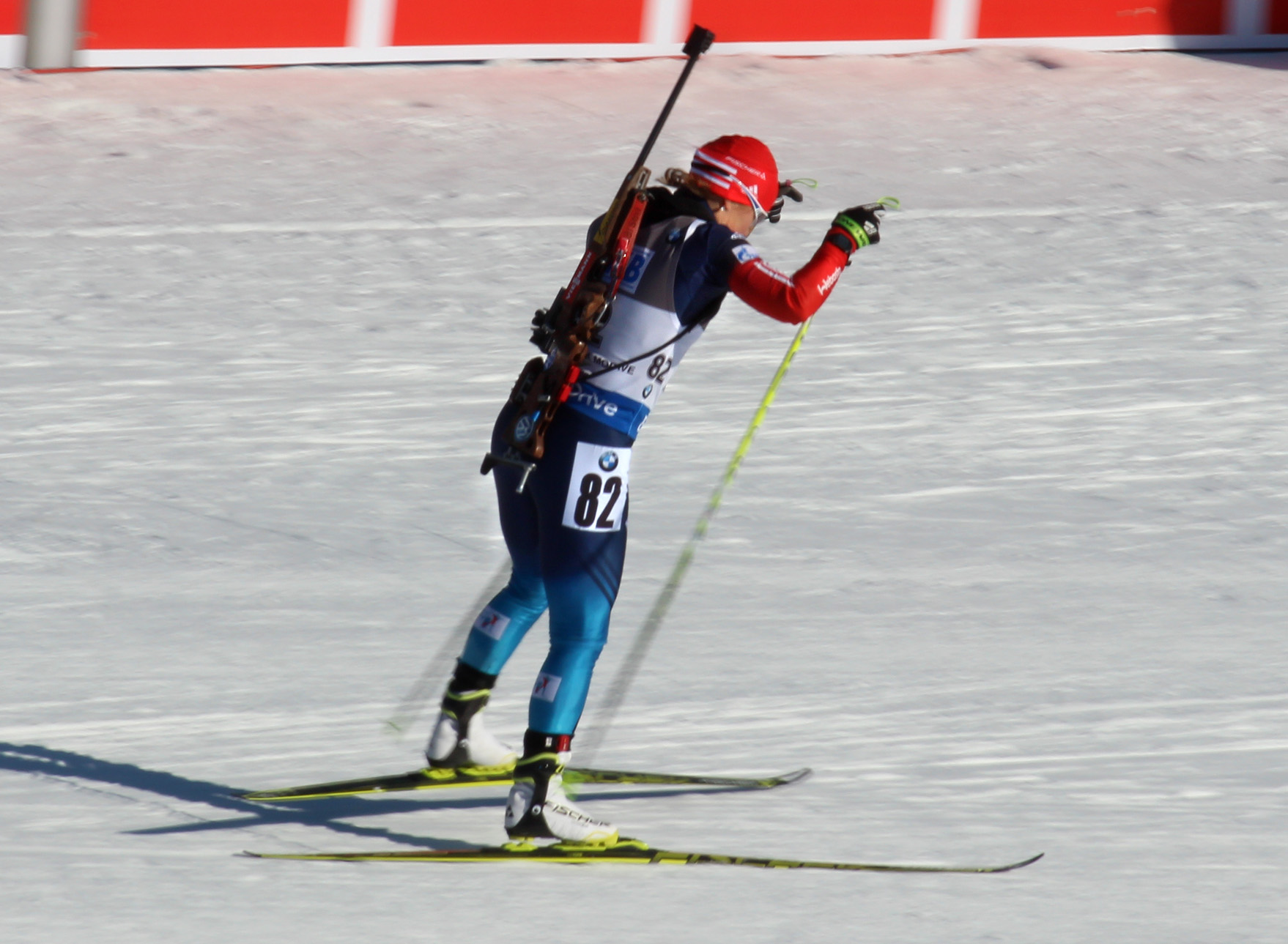 Ekaterina Yurlova at Biathlon World Cup 2015 in Nové Město, Czech Republic – sprint women